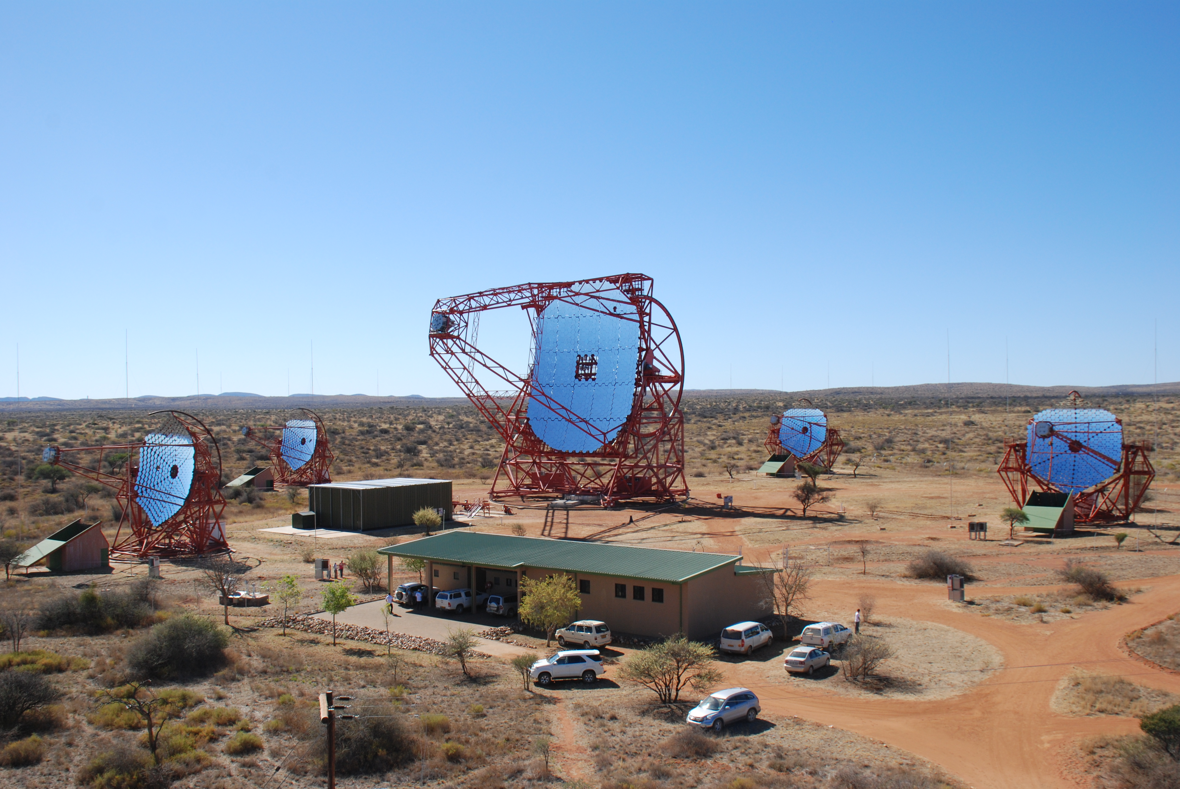 Picture of the H.E.S.S. II Telescope Array